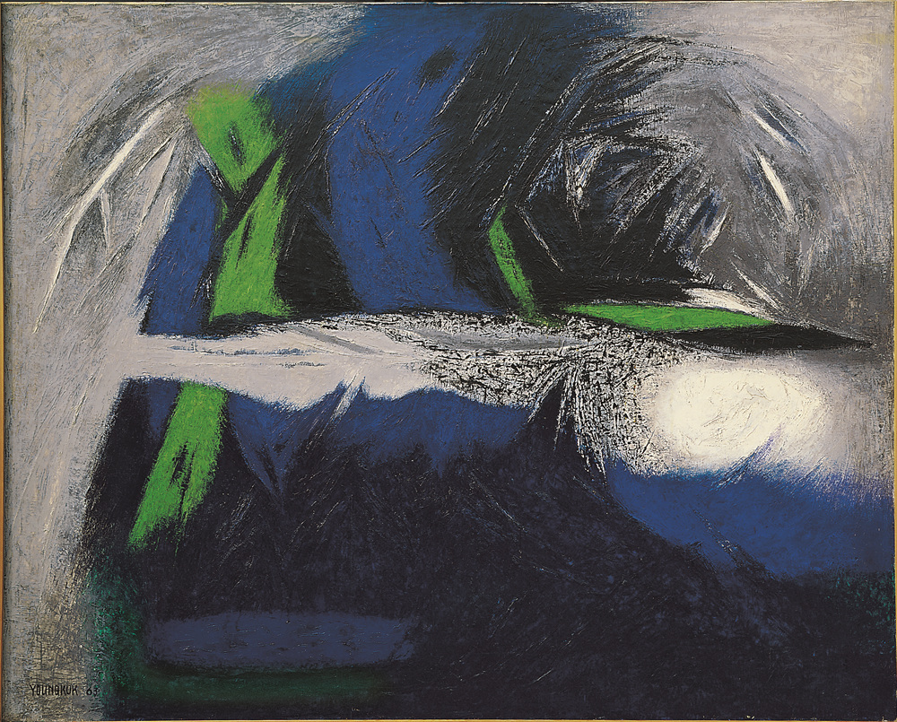 1963 oil on canvas 130x162cm